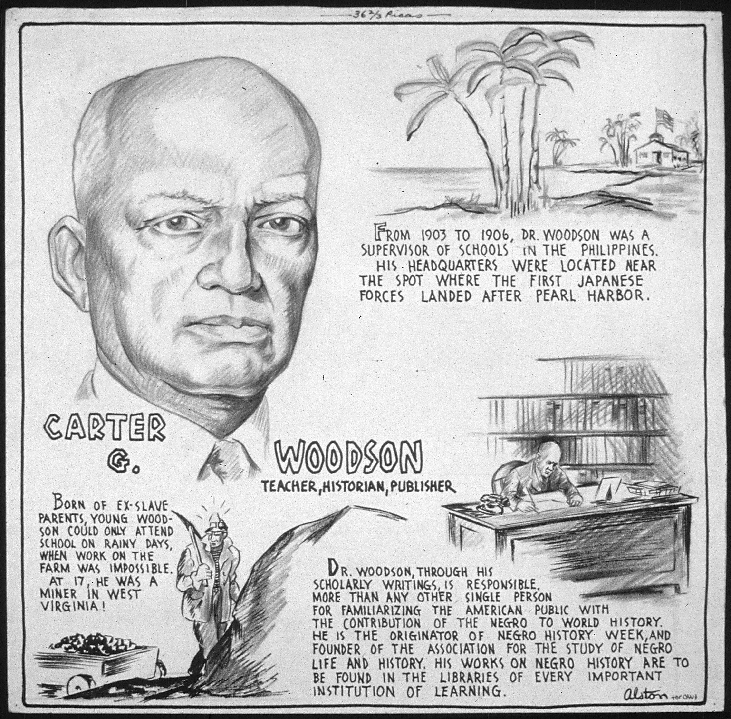 Scope and content: Carter G. Woodson - with biographical paragraphs.